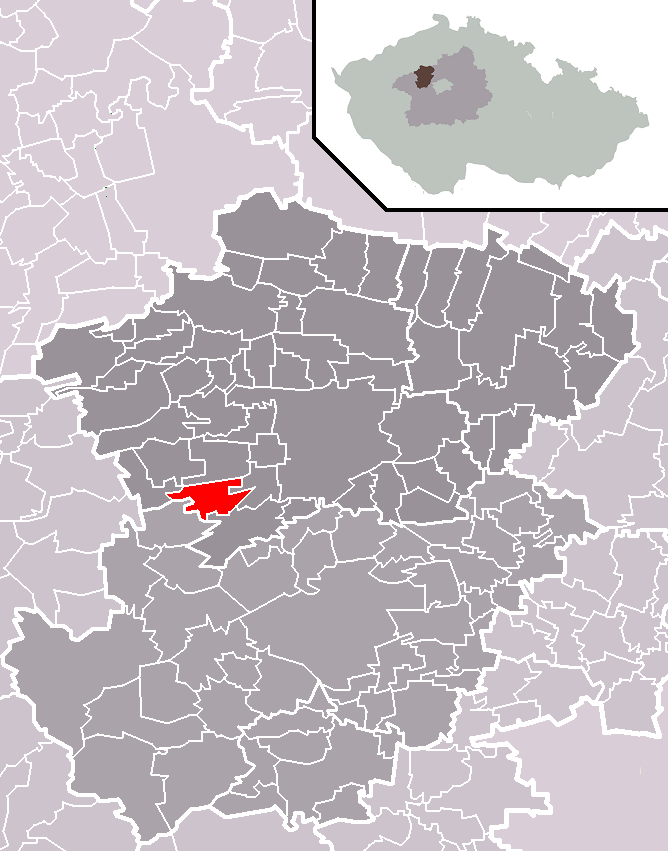 Location of Ledce municipality within Kladno District and administrative area of Slaný as a Municipality with Extended Competence.